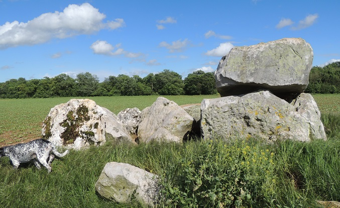 side view od the dolmen with the entrance on the left .